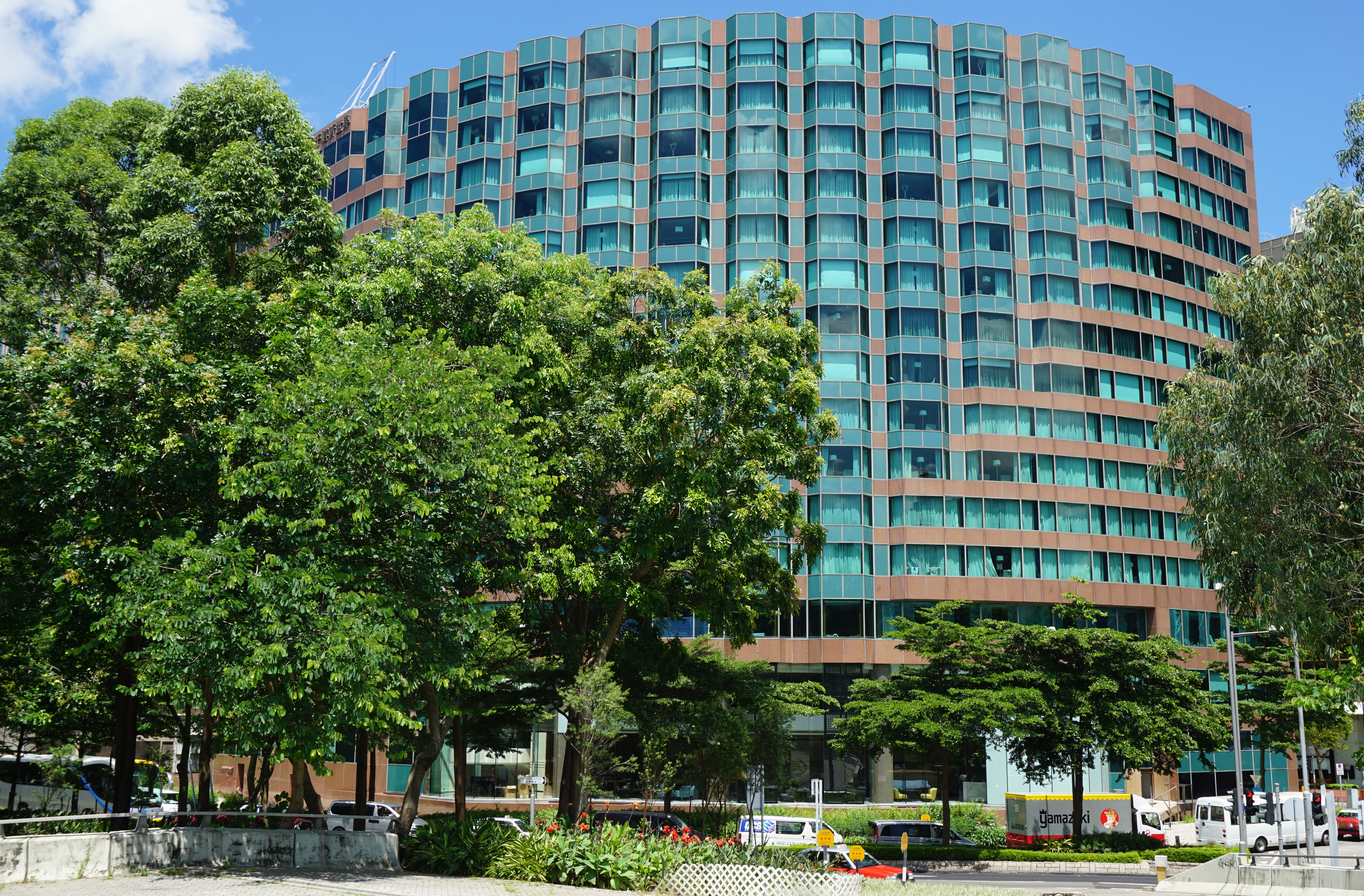 New World Millennium Hong Kong Hotel in East Tsim Sha Tsui, Hong Kong.